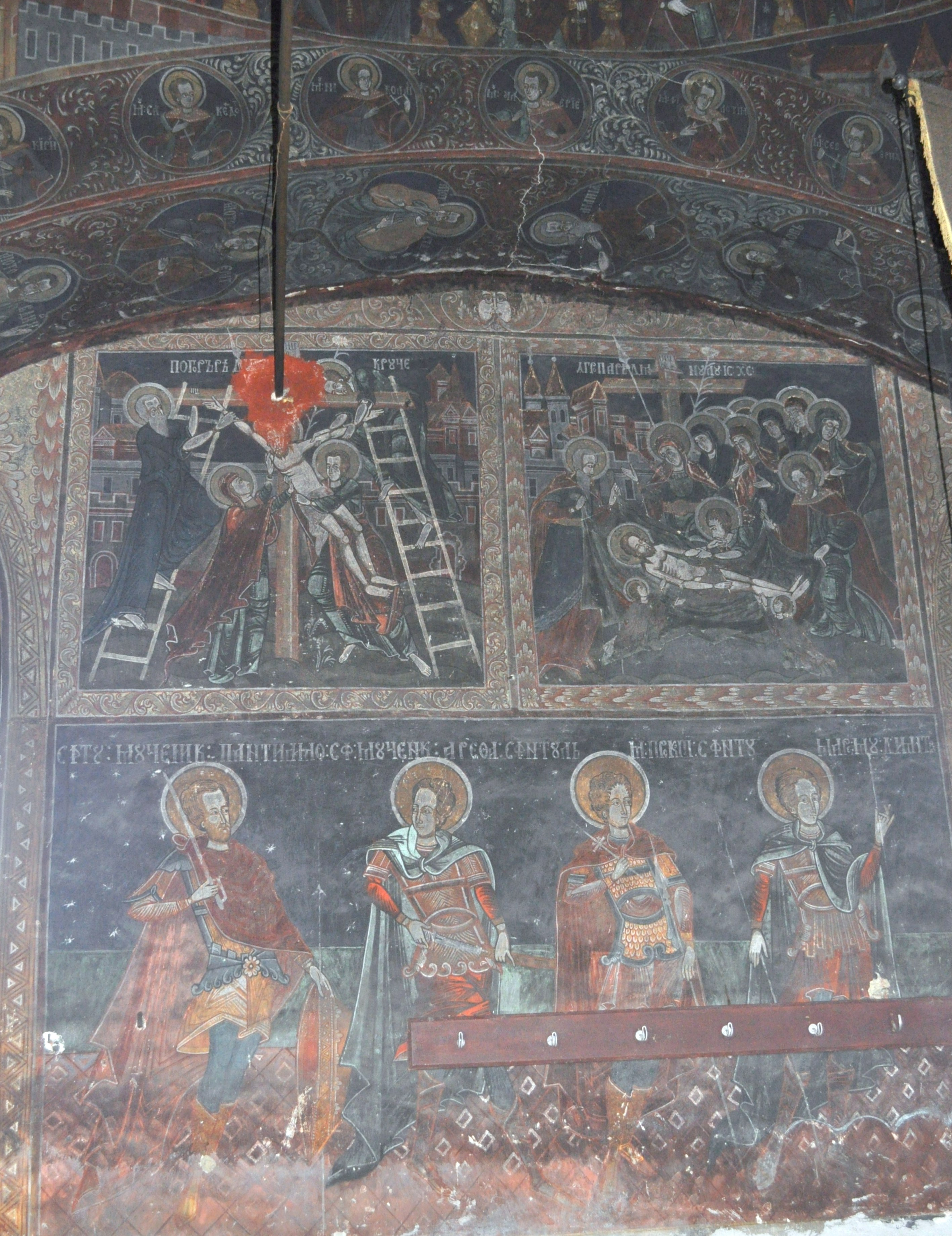 ”The Saint Pious Parascheva” church of Țichindeal, Sibiu county